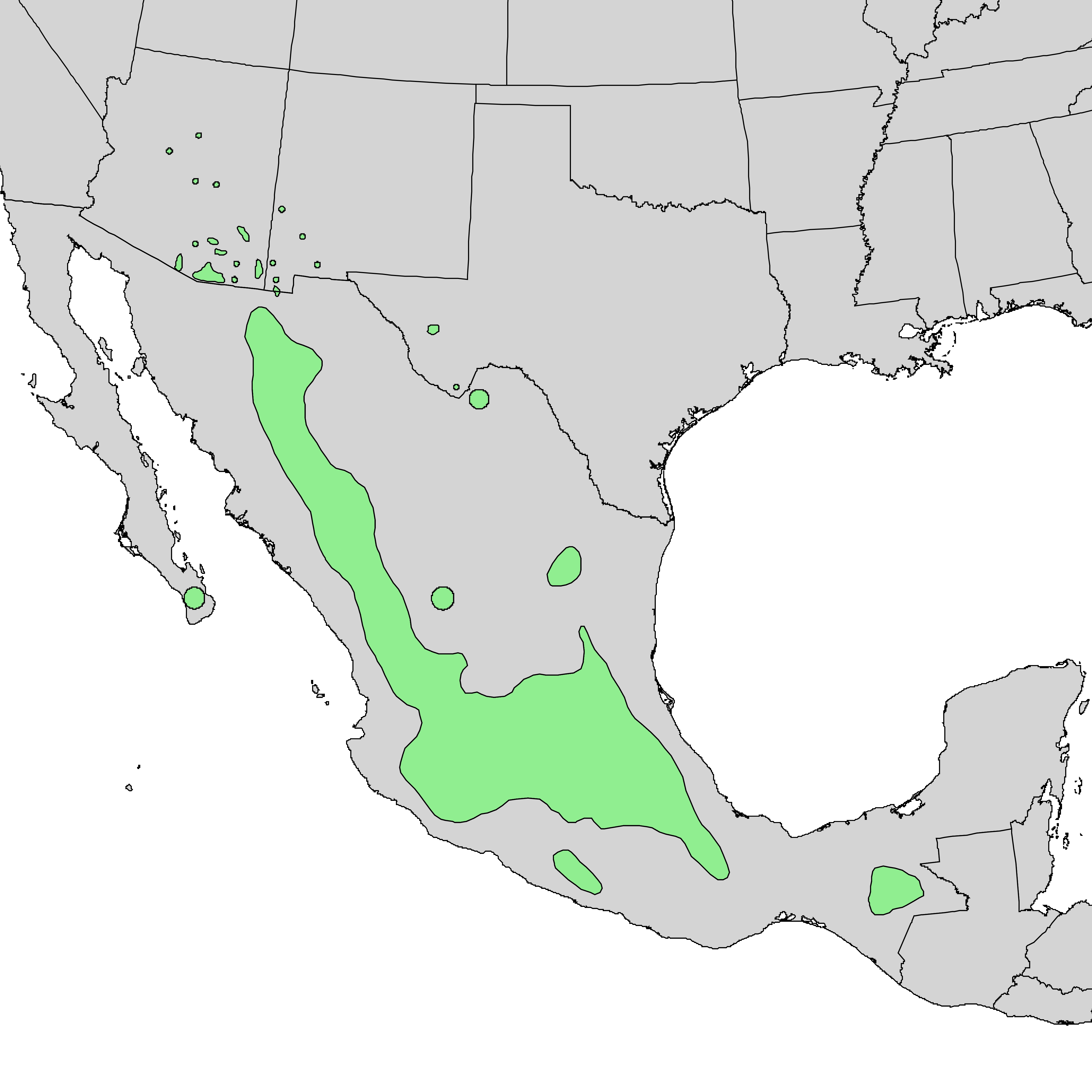 Natural distribution map for Quercus rugosa